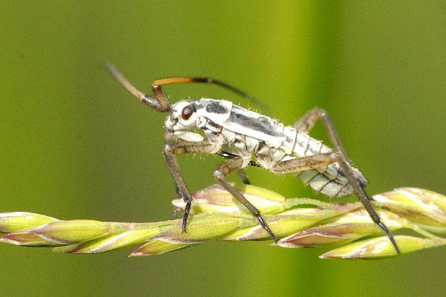 nymph of Leptopterna ferrugata. Picture taken in Commanster, Belgian High Ardennes .